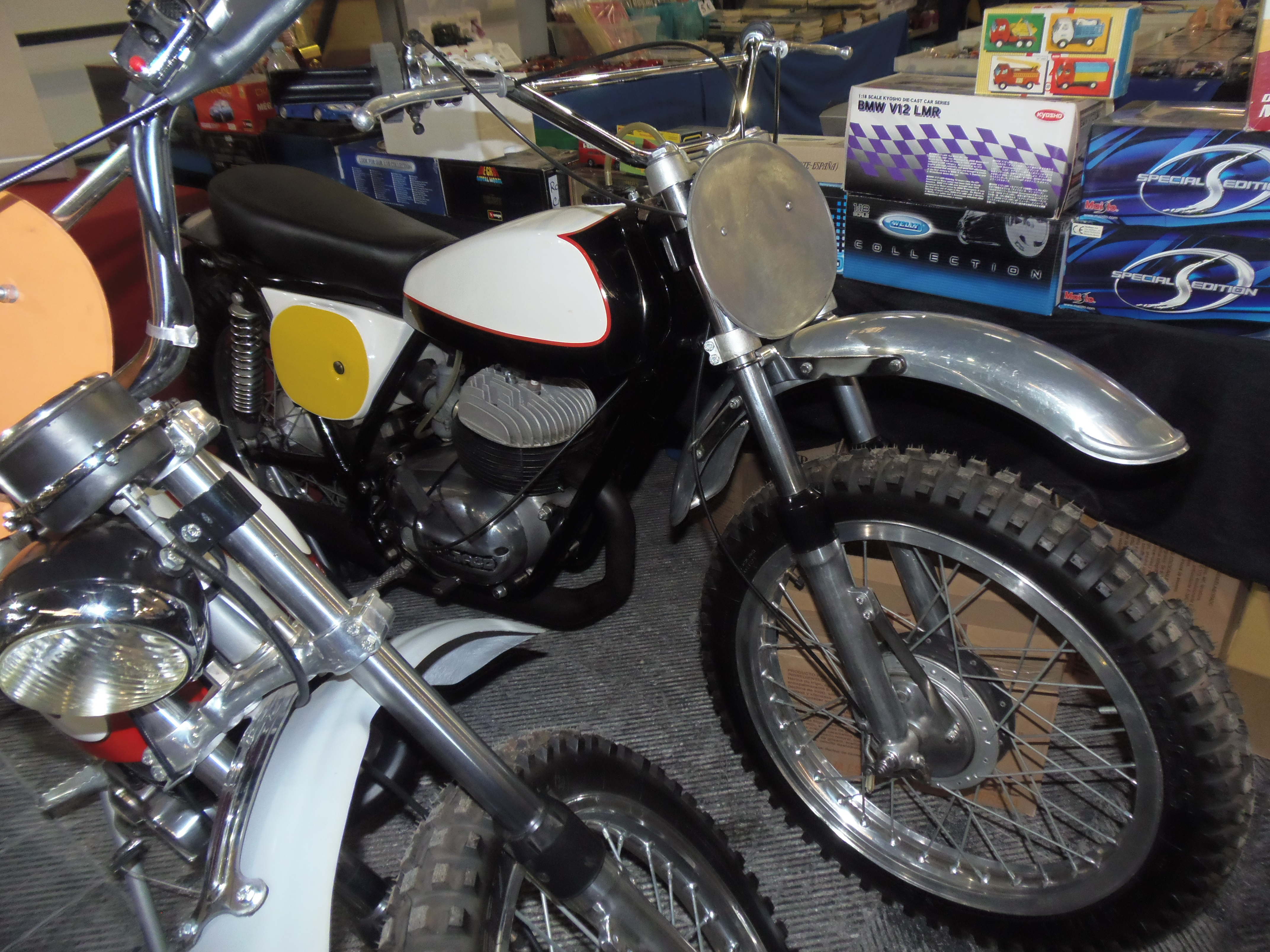 Bultaco El Bandido MK2 360, 1969